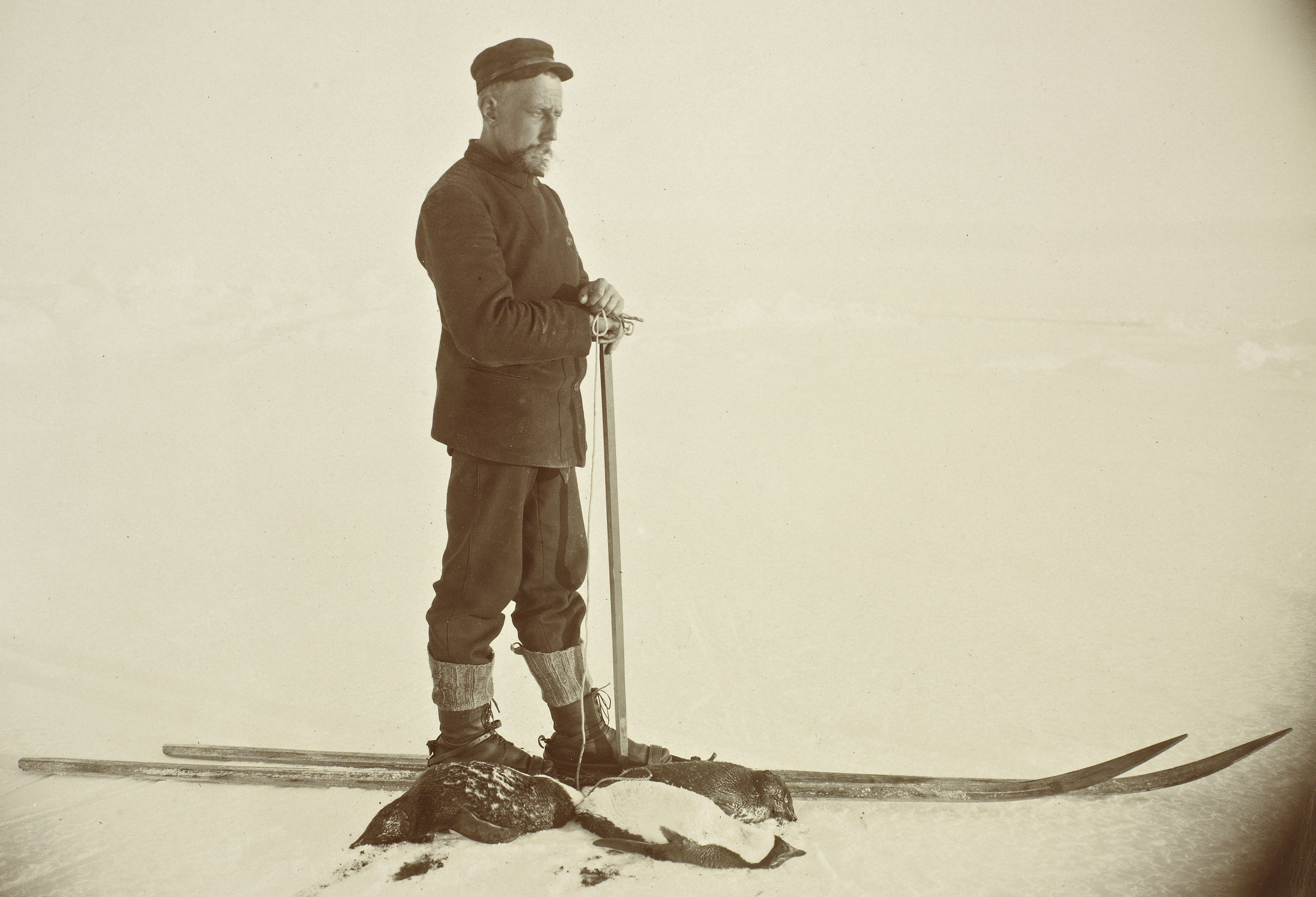 Motiv / Motif: På denne tiden visste man ikke at den farlige sykdommen skjørbuk skyldtes c-vitaminmangel, men man hadde erfart at ferskt og ikke gjennomstekt kjøtt i kostholdet motvirket sykdommen. Amundsen jaktet mye under ekspedisjonen for å forsyne mannskapet med kjøtt. Dato / Date: 1897-1898 Fotograf / Photographer: Frederick A. Cook (1865-1940) Sted / Place: Antarktis Eier / Owner Institution: Nasjonalbiblioteket / National Library of Norway Lenke / Link: Bildesignatur / Image Number: bldsa_NBRA0015